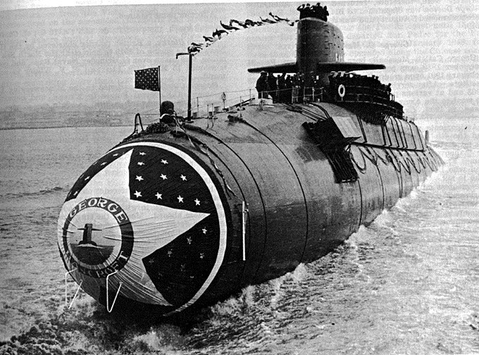 USS_George_Bancroft; George Bancroft (SSBN-643), launch, 20 March 1965, the Electric Boat Division of General Dynamics Corp., Groton, CT US Navy photo.